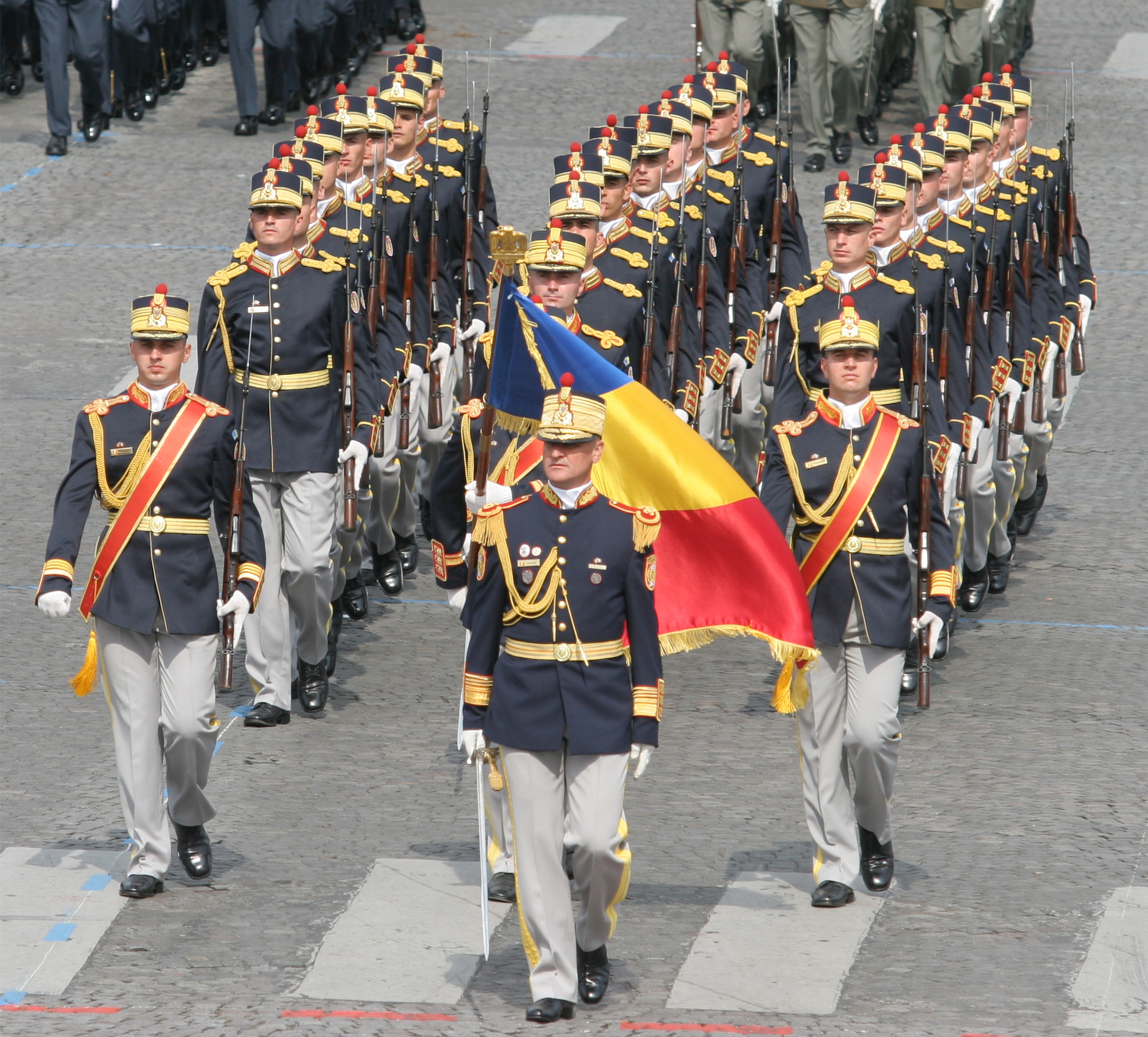 Soldiers of the Romanian 30th Honor Guard Regiment "Mihai Viteazul" marching on the Avenue des Champs-Elysées in Paris during the 2007 Bastille Day Military Parade